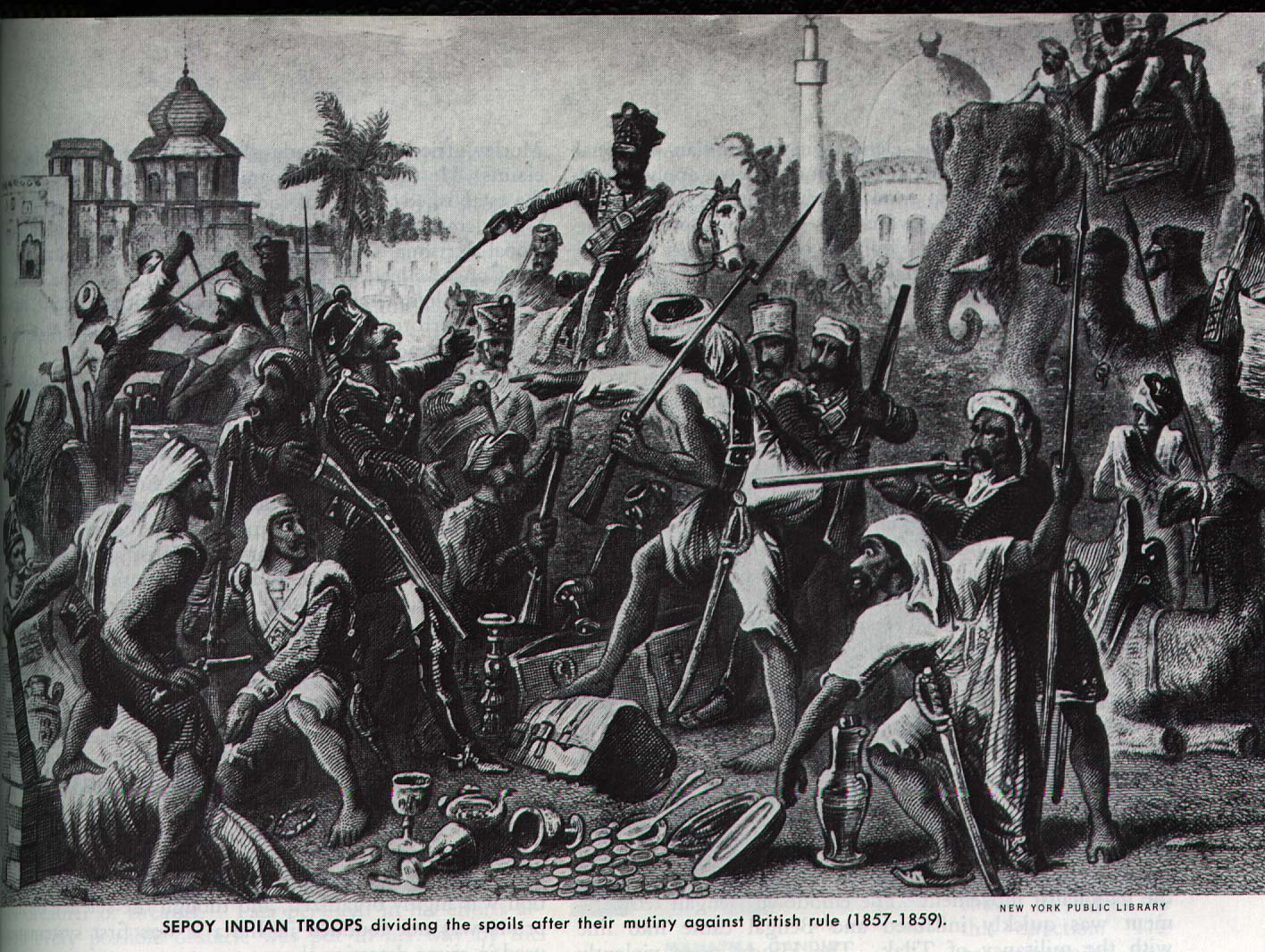 The Sepoy Mutany of 1857